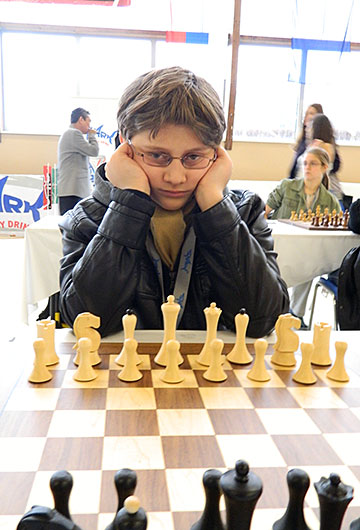 U12 open - Samuel Sevian (USA), 1st place (Maribor 2012)